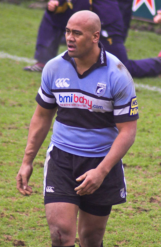 The rugby union player from New Zealand Jonah Lomu playing for Cardiff Blues